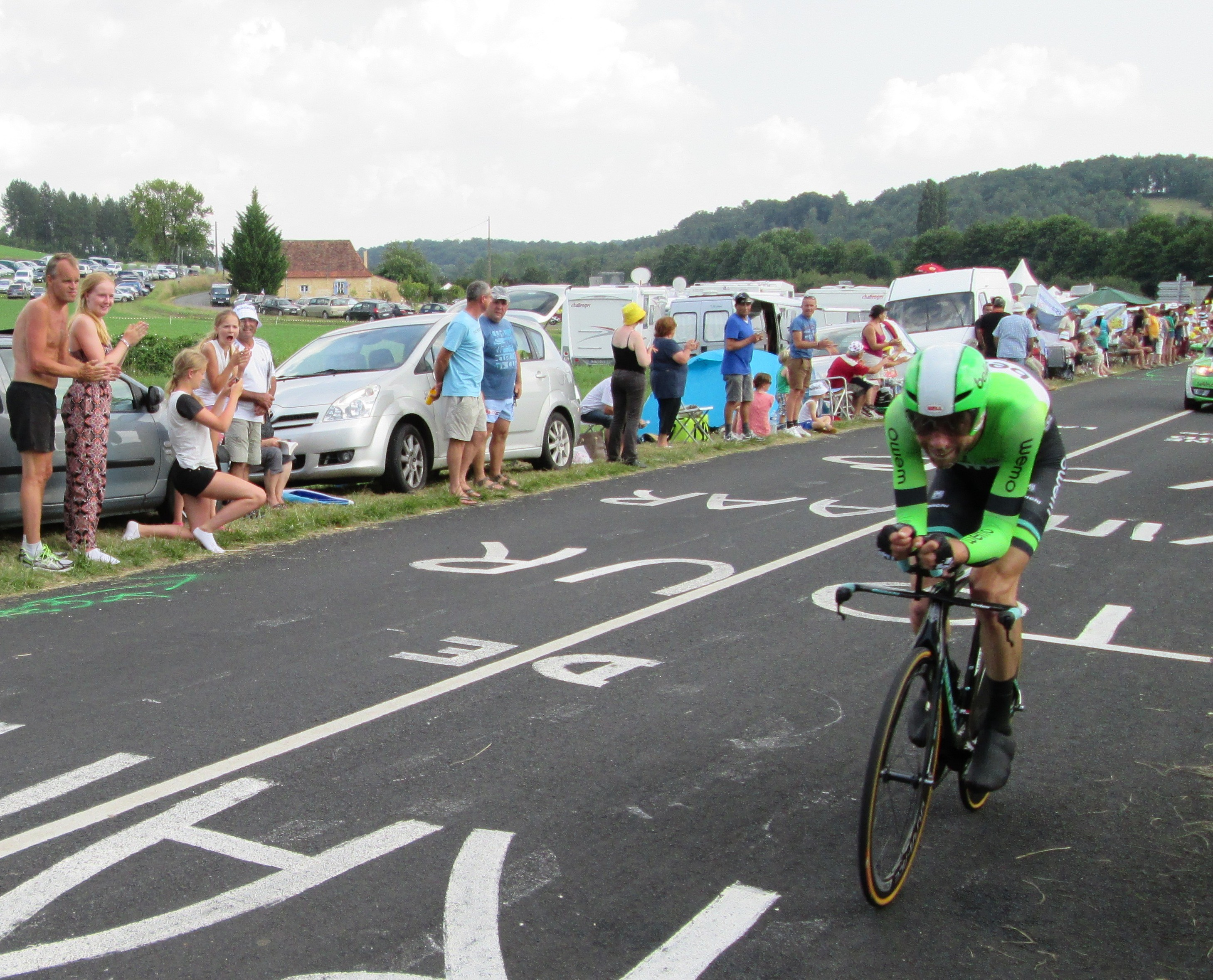 Laurens ten Dam during the 2014 Tour de France, Stage 20. Photo taken 1.5 km after Beleymas, Dordogne.